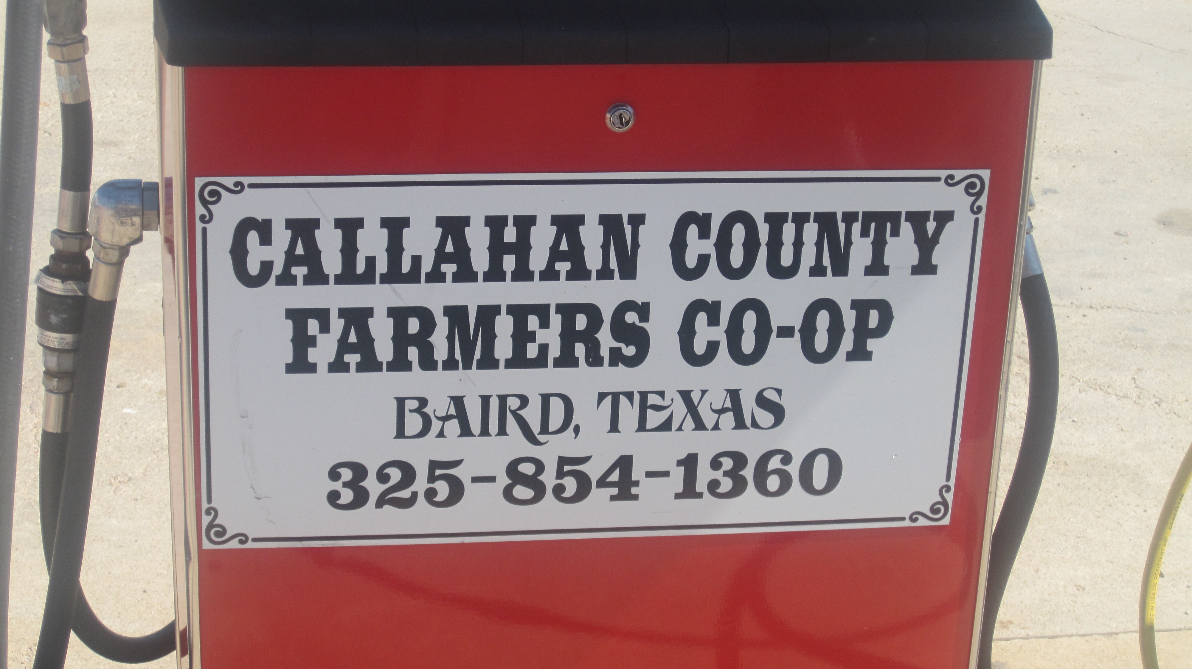 I took photo with Canon camera in Baird, TX.